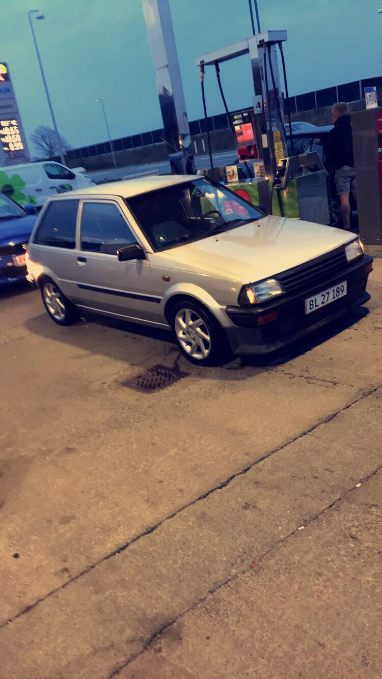 Toyota Starlet